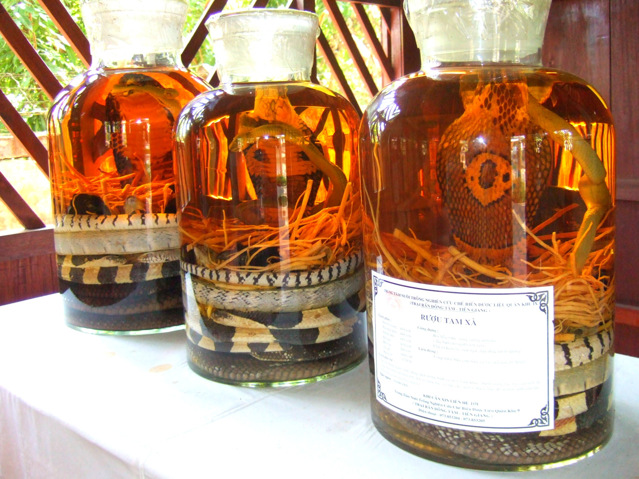 snake wine, produced in My Tho's snake farm (Vietnam)